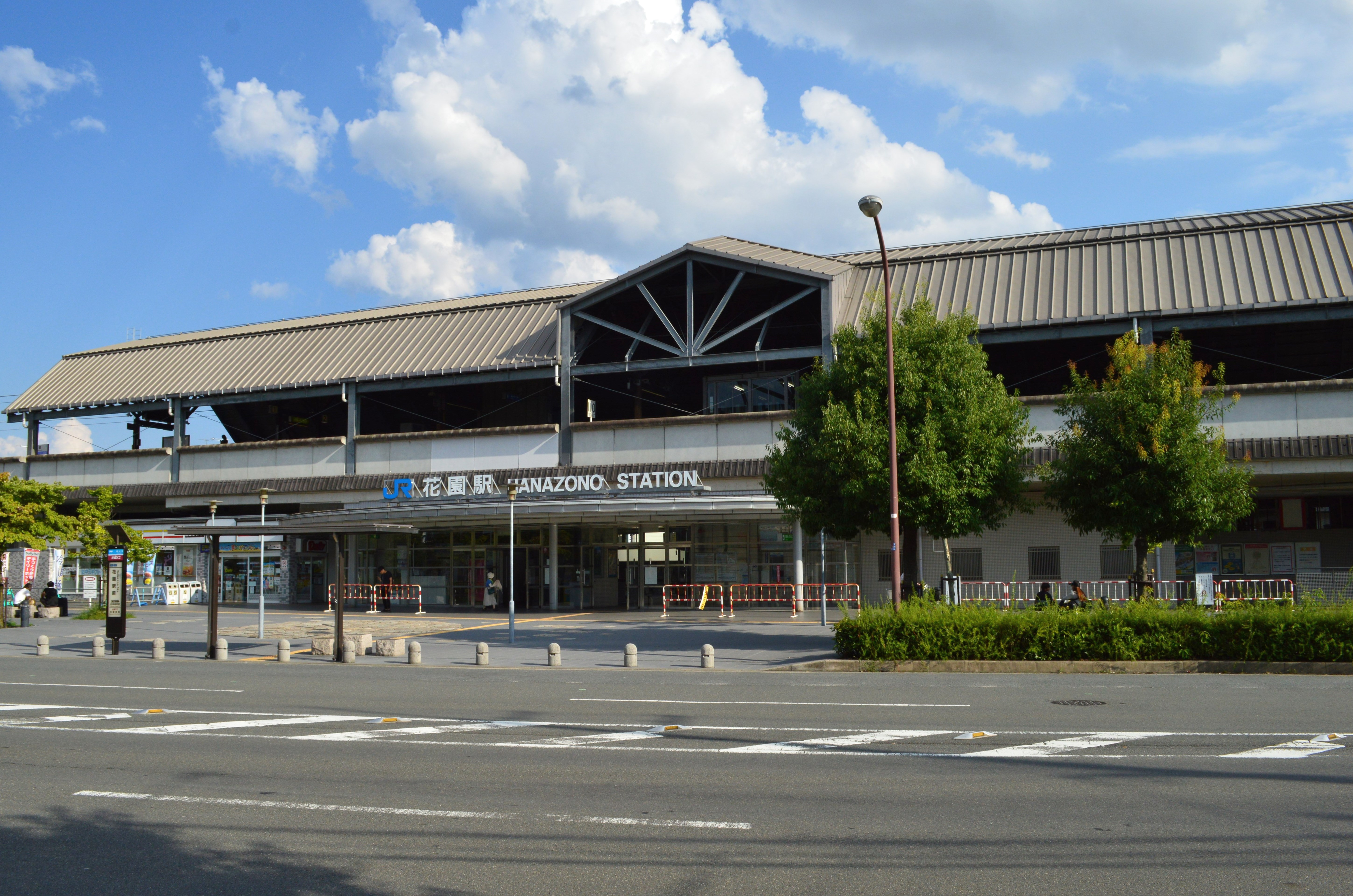 Hanazono Station in Kyoto Prefecture, Japan